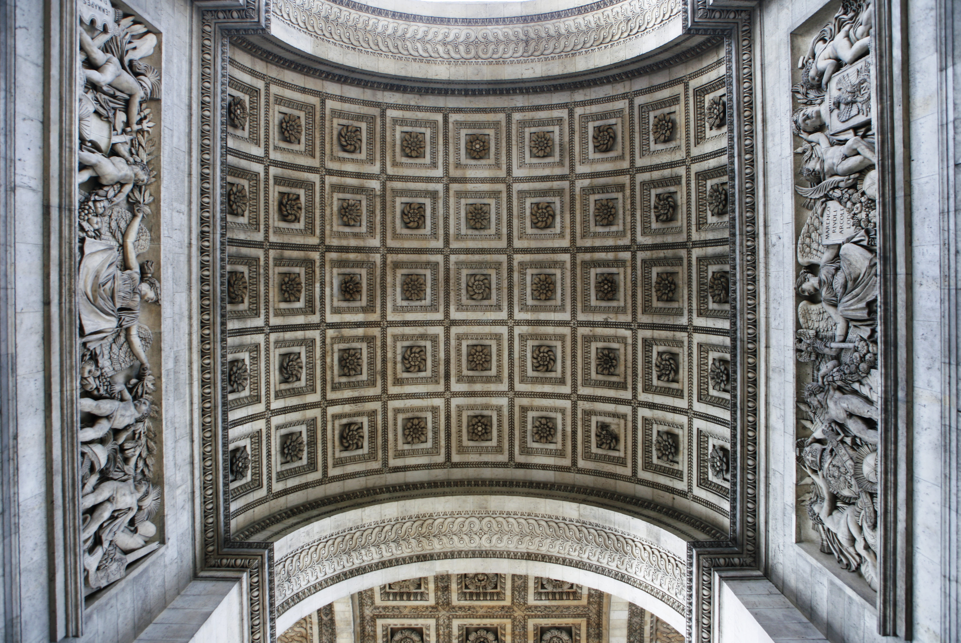 Details of the Arc de Triomphe